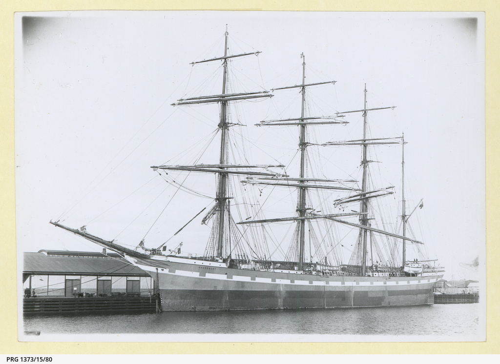 The four masted steel barque 'Hougomont', 2428 tons, docked in an unidentified port [steel 4 mast barque, 2428 tons. ON106093. 292.4 x 43.2 x 24.1. Built 1897 Scott and Co. Greenock. Owners: J Hardie and Co. Registered Glasgow. After WW1 passed to Gustav Eriksson and was employed in the Australia grain trade. Dismasted on her passage to South Australia in 1932. Spent some time anchored off Semaphore while awaiting a decision for her fate, but repairs proving to be too expensive in Australia she was taken and scuttled as a breaker in Stenhouse Bay